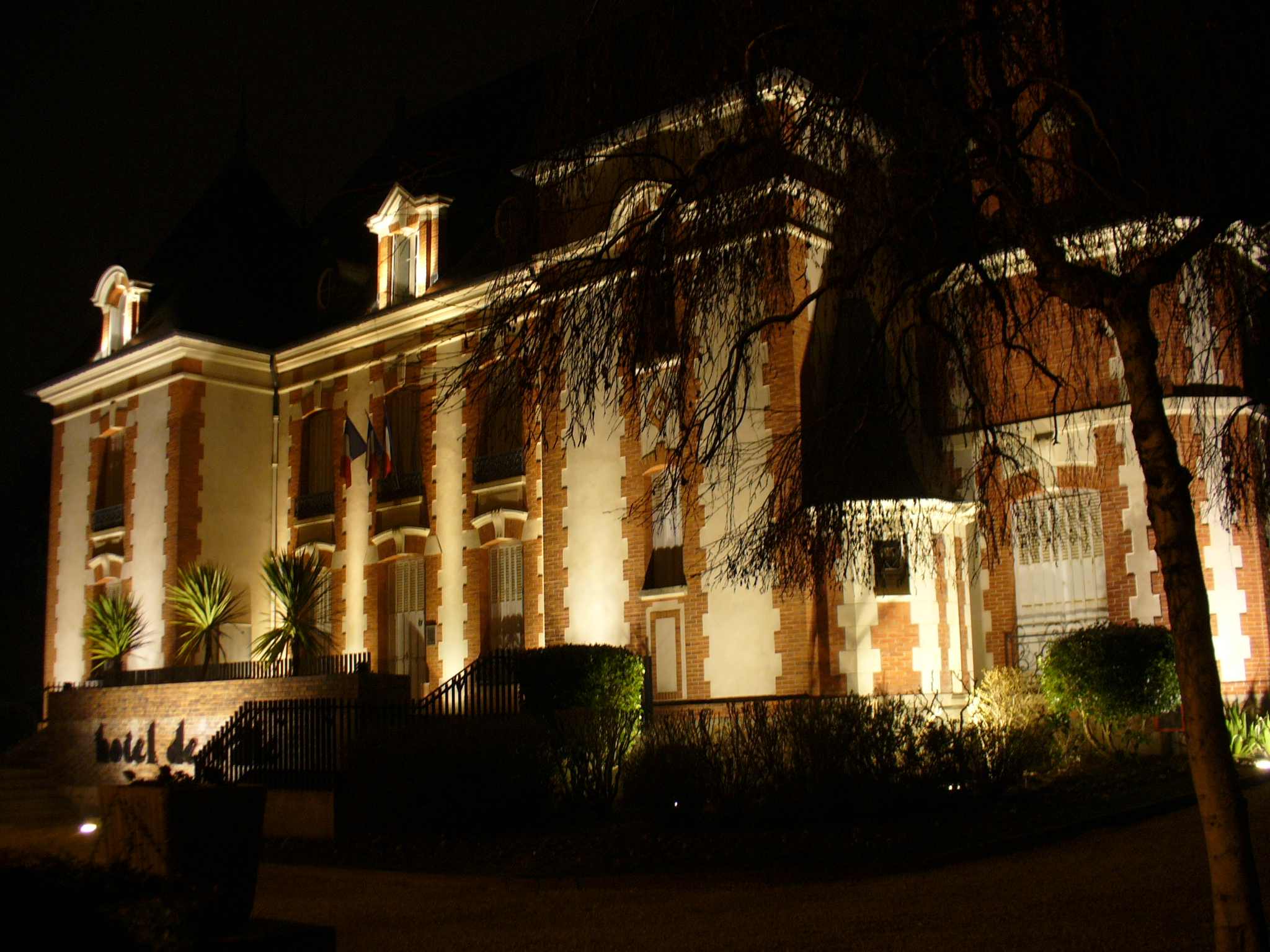 Villiers-sur-Orge (Essonne) townhall by night